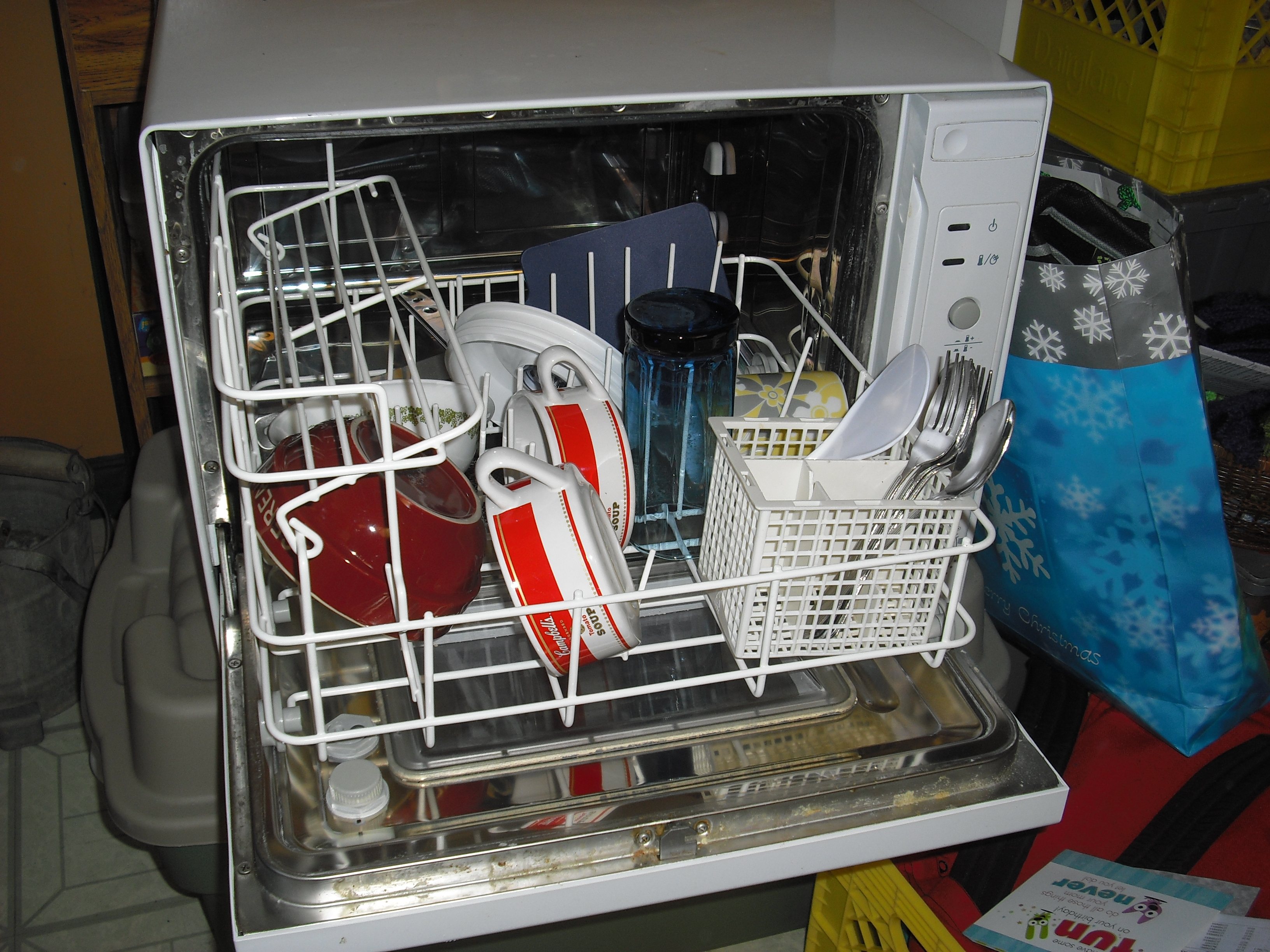 I Myke waddy took this photo. Canada. Myke Waddy the creator of this work, hereby releases it into the public domain.